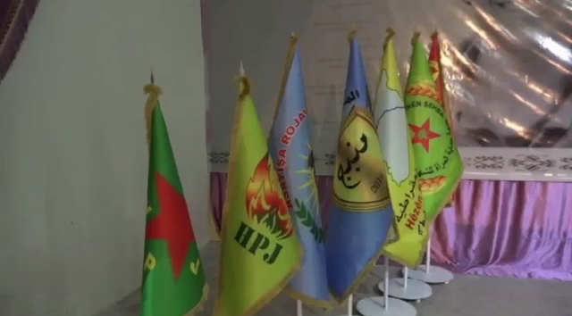 Flags of the Women's Protection Units, the Women's Defence Forces, the Rojava Asayish, the Manbij Military Council, the Syrian Democratic Forces, and the Shahba Women's Protection Front during a conference of KCK and SDF groups in Kobanî.